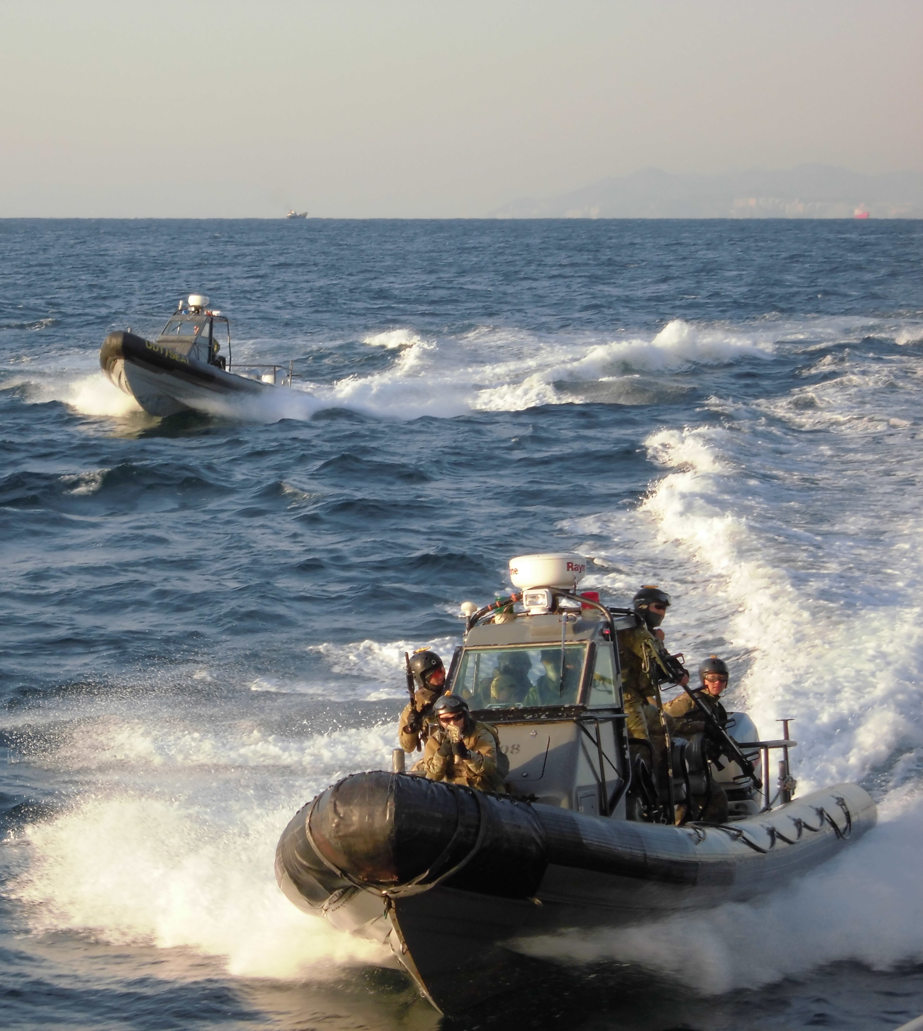 CHINHAE, Republic of Korea (March 22, 2013) Sailors assigned to Republic of Korea (ROK) Special Warfare Flotilla and SEAL Team 17 prepare to conduct a visit, board, search and seizure (VBSS) during exercise Key Resolve 2013. Exercise Key Resolve is an annual combined and joint command post exercise that is executed under various scenarios with the purpose of honing the skills necessary to defend the Republic of Korea by improving ROK-U.S. combined forces' operational capabilities, coordinating and executing the deployment of U.S. reinforcements, and maintaining ROK military combat capabilities. The exercise is designed to increase Alliance readiness, protect the region, and maintain stability on the Korean Peninsula. (U.S. Navy photo by Lt. Cmdr. Cheol Kang/Released) 130322-N-BF421-002 Join the conversation navylive.dodlive.mil